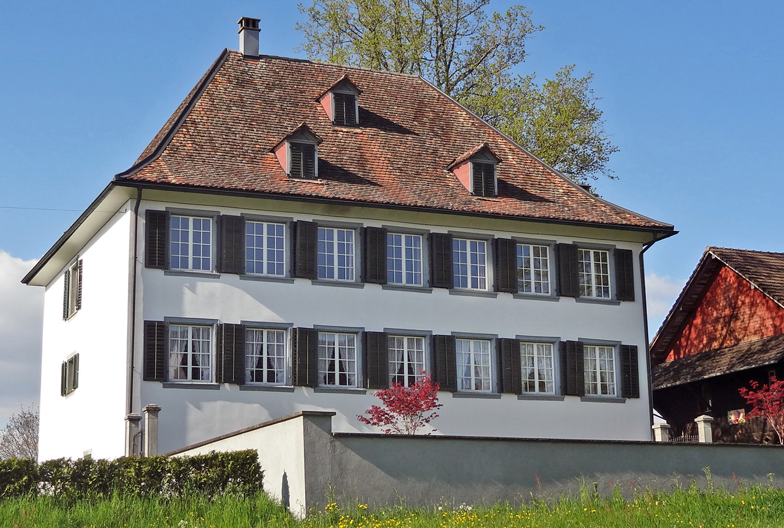 House in Andhausen (Berg TG), Switzerland